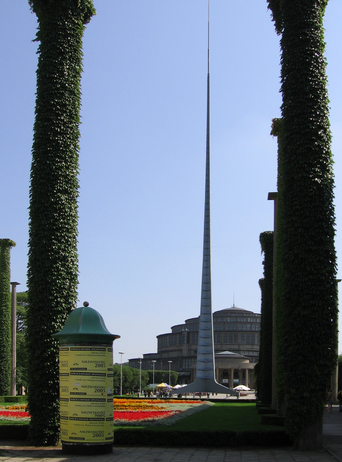 Iglica - "The Spire" - ca. hundred meter high steel construction near Hala Ludowa ("Century's Hall" - in background) built in 1948 in Wrocław, Poland